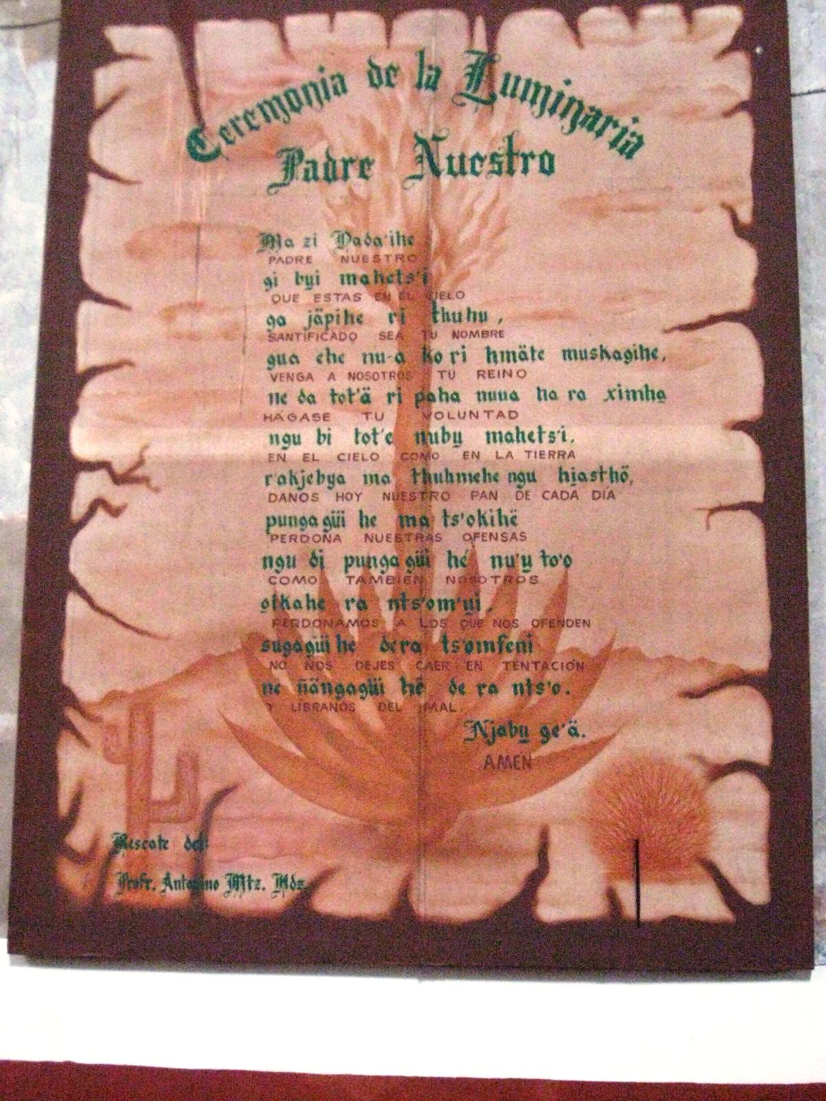 Lord's Prayer posted in Otomi and Spanish inside the Parish of San Miguel Arcángel in Ixmiquilpan, Hidalgo State, Mexico